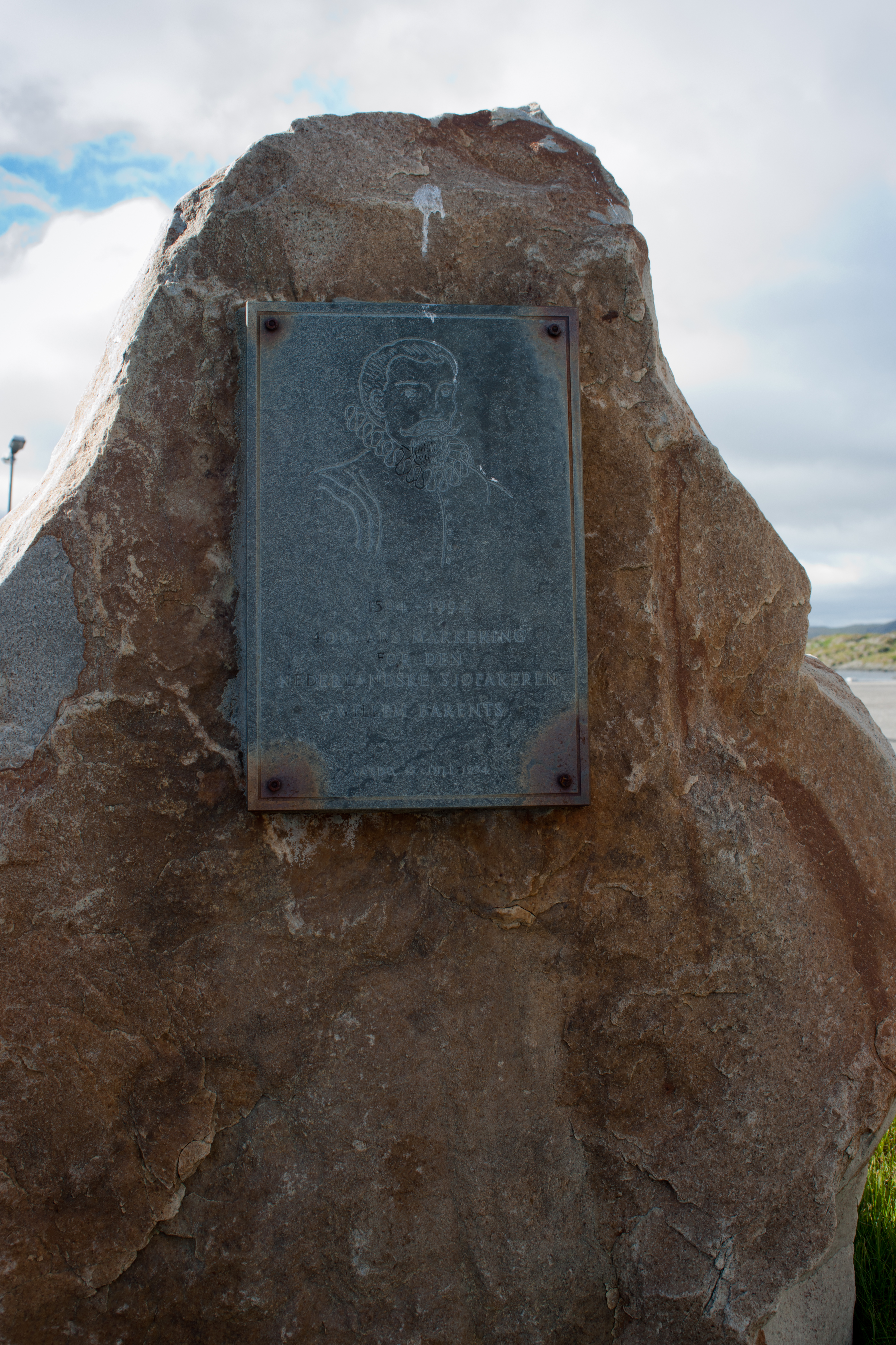 Monument to Willem Barents, Vardø, Norway.